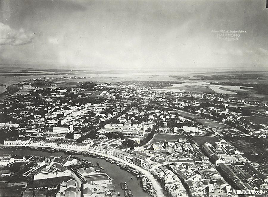 Toàn cảnh Hải Phòng nhìn từ không trung năm 1931